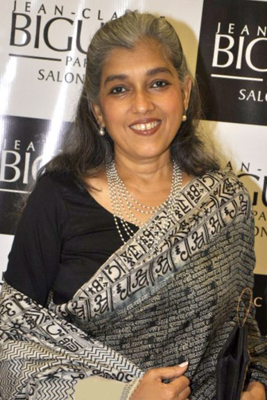 Ratna Pathak at Jean – Claude Biguine Salon & Spa.